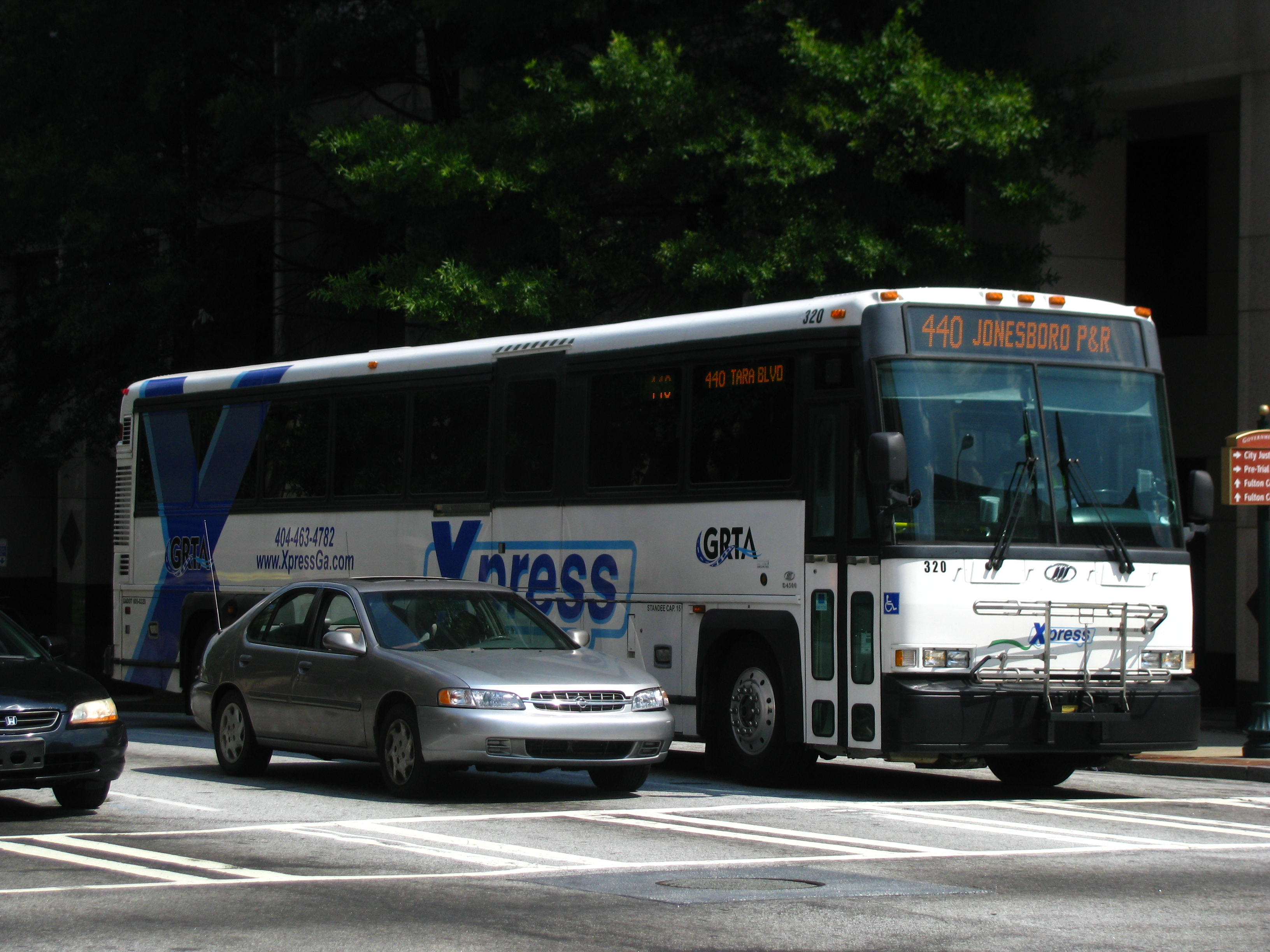 The oldest of the old runners